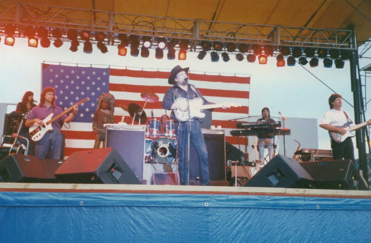 Waylon Jennings on stage at Rocky Gap